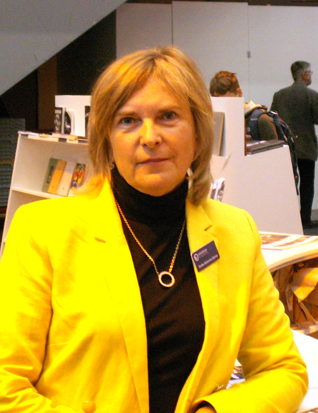 Emőke Lipszey at the Göteborg Book Fair.